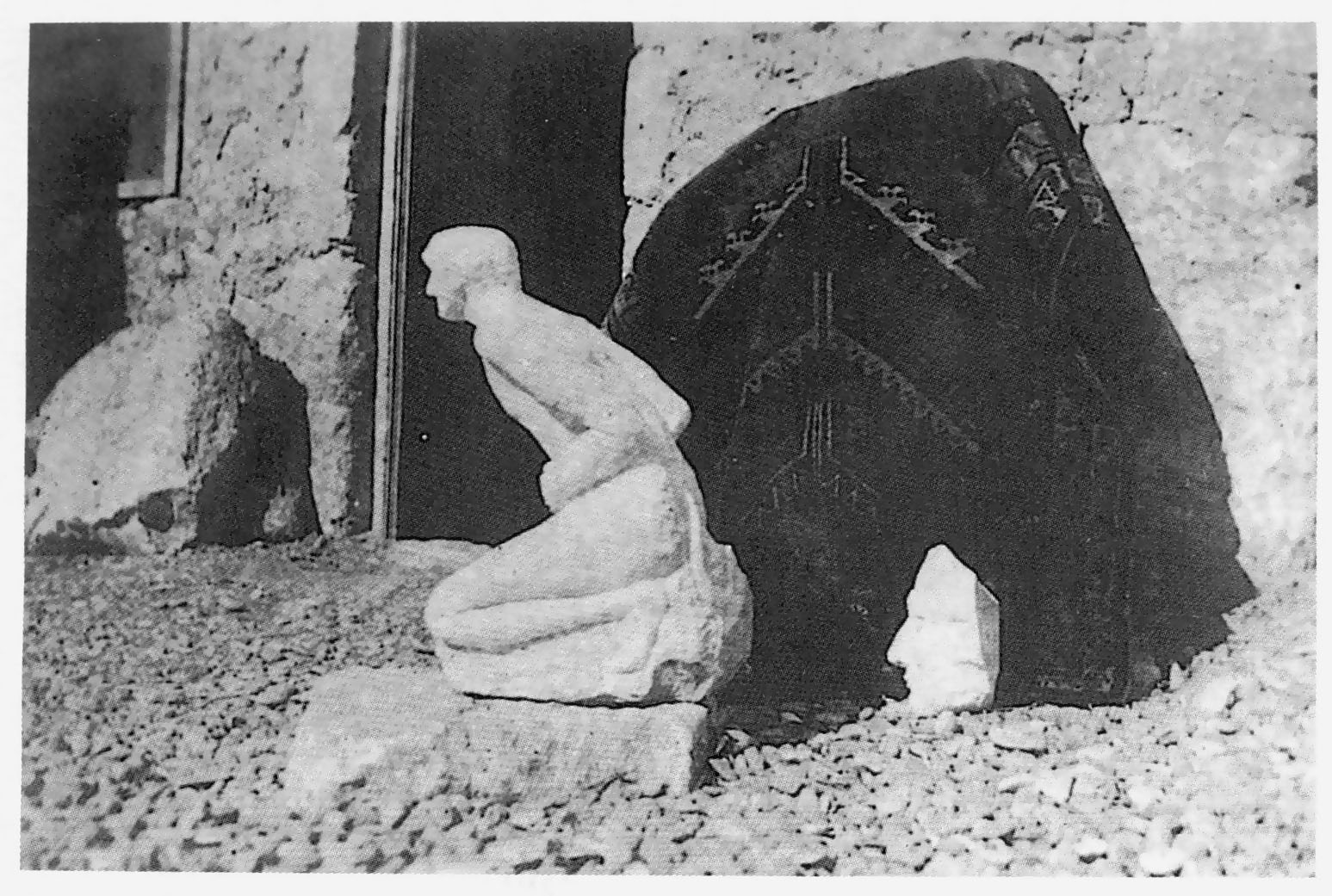 Hubert Young's 1913 Photograph of T.E. Lawrence's naked statue of Dahoum made in Carchemish, northern Syria.